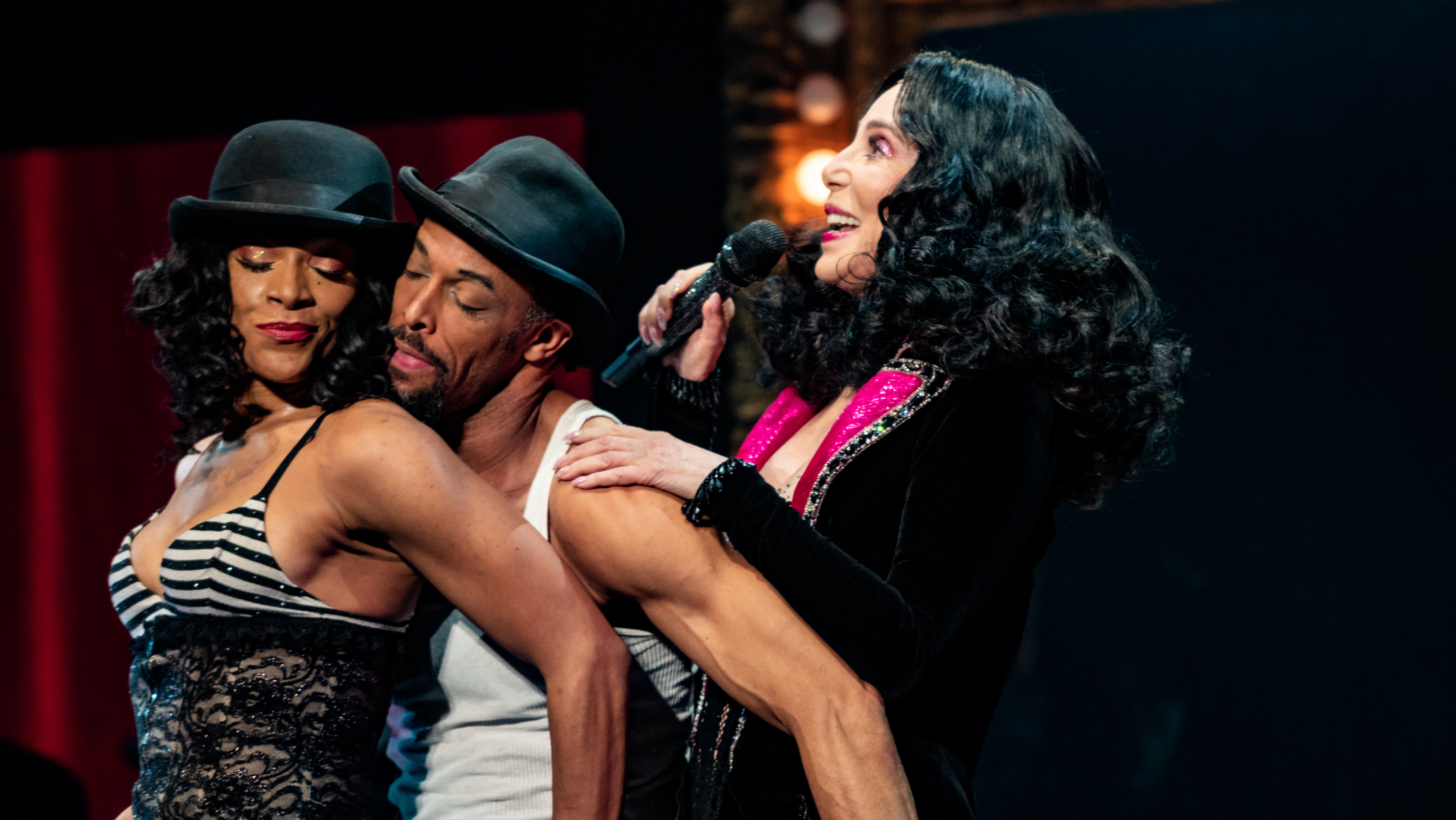 CherO2201019-26